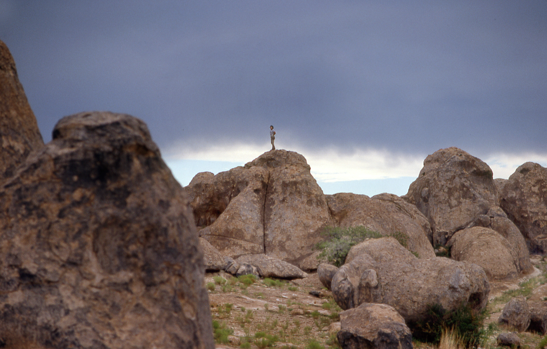 A view of City of Rocks in NM